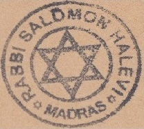 Rabbi Salomon Halevi Seal